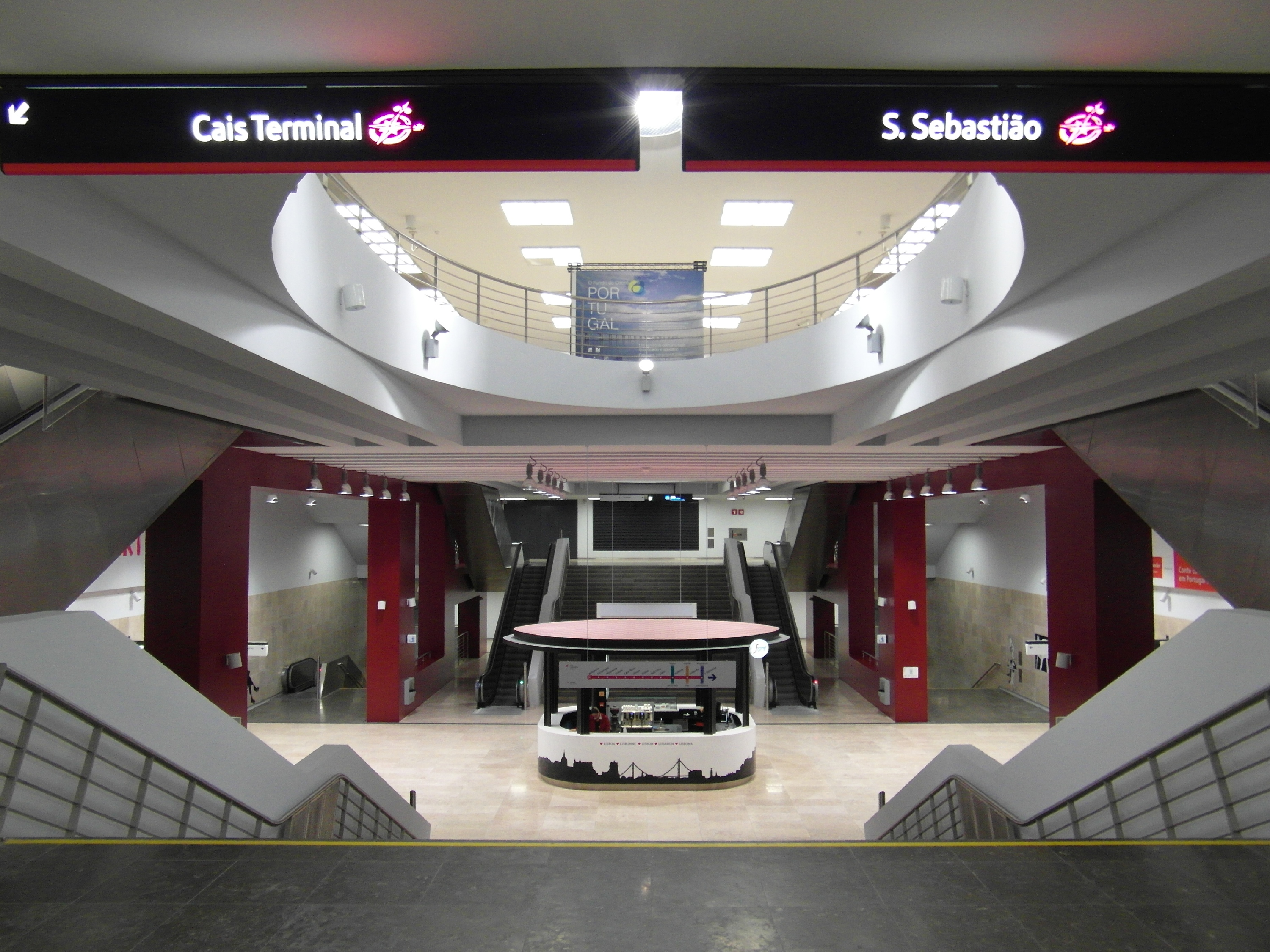 Aeroporto underground station of the Lisbon Metro, Lisbon, Portugal